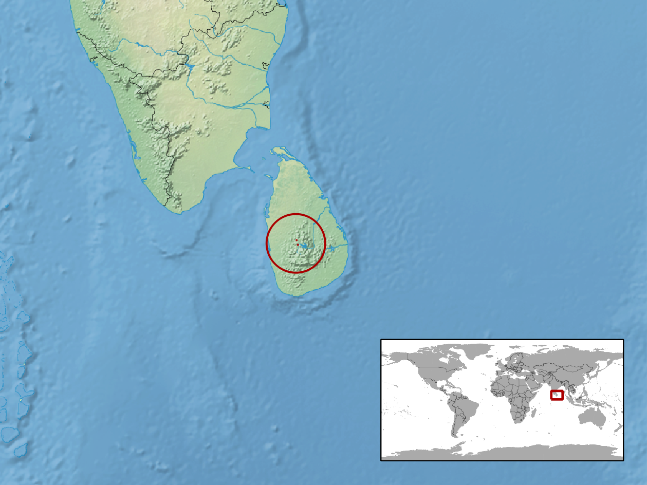 geographic distribution of Boiga ranawanei (Native: Sri Lanka)